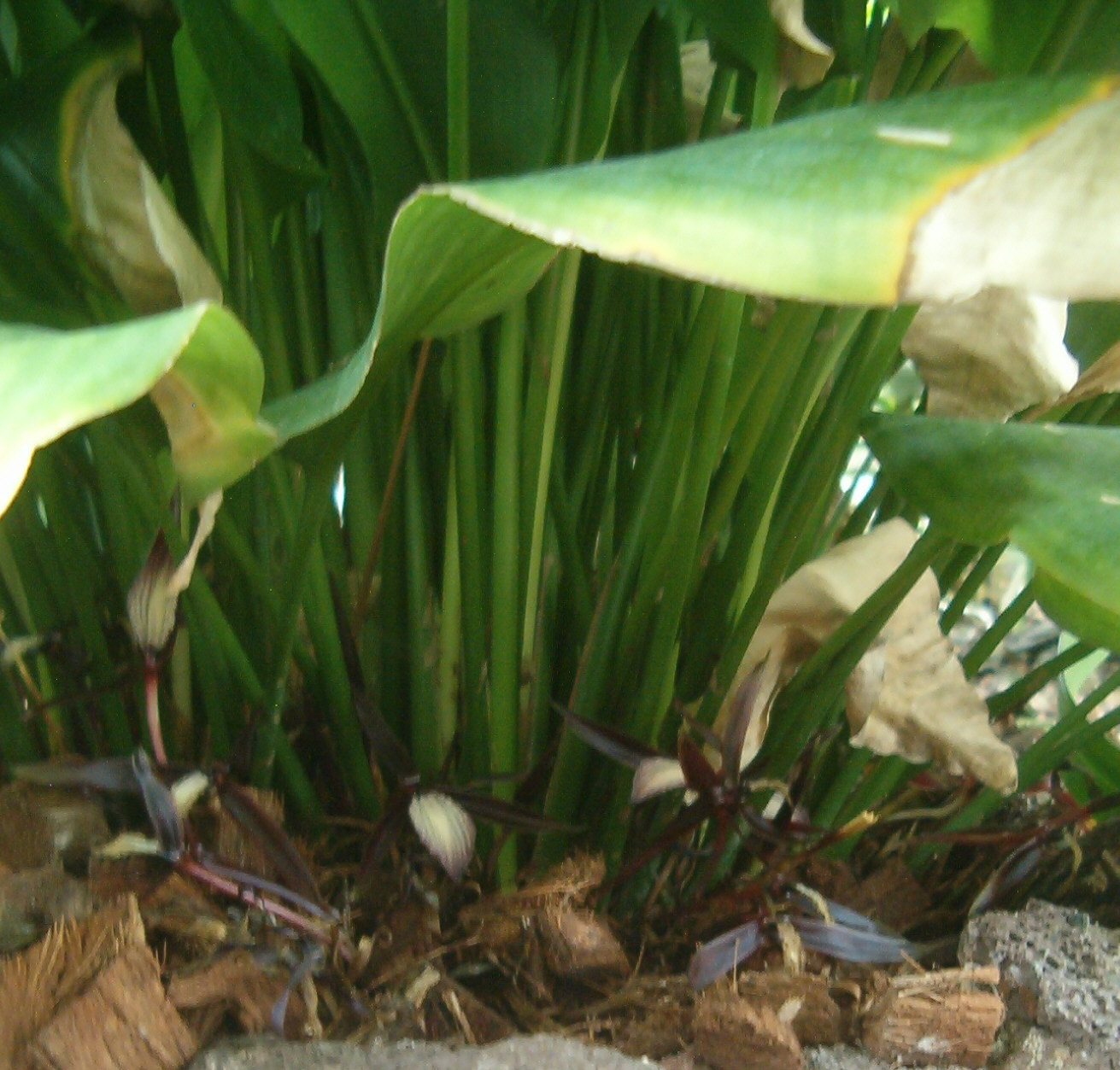 At Botanical Gardens Berlin-Dahlem Species Orchidantha maxillarioides